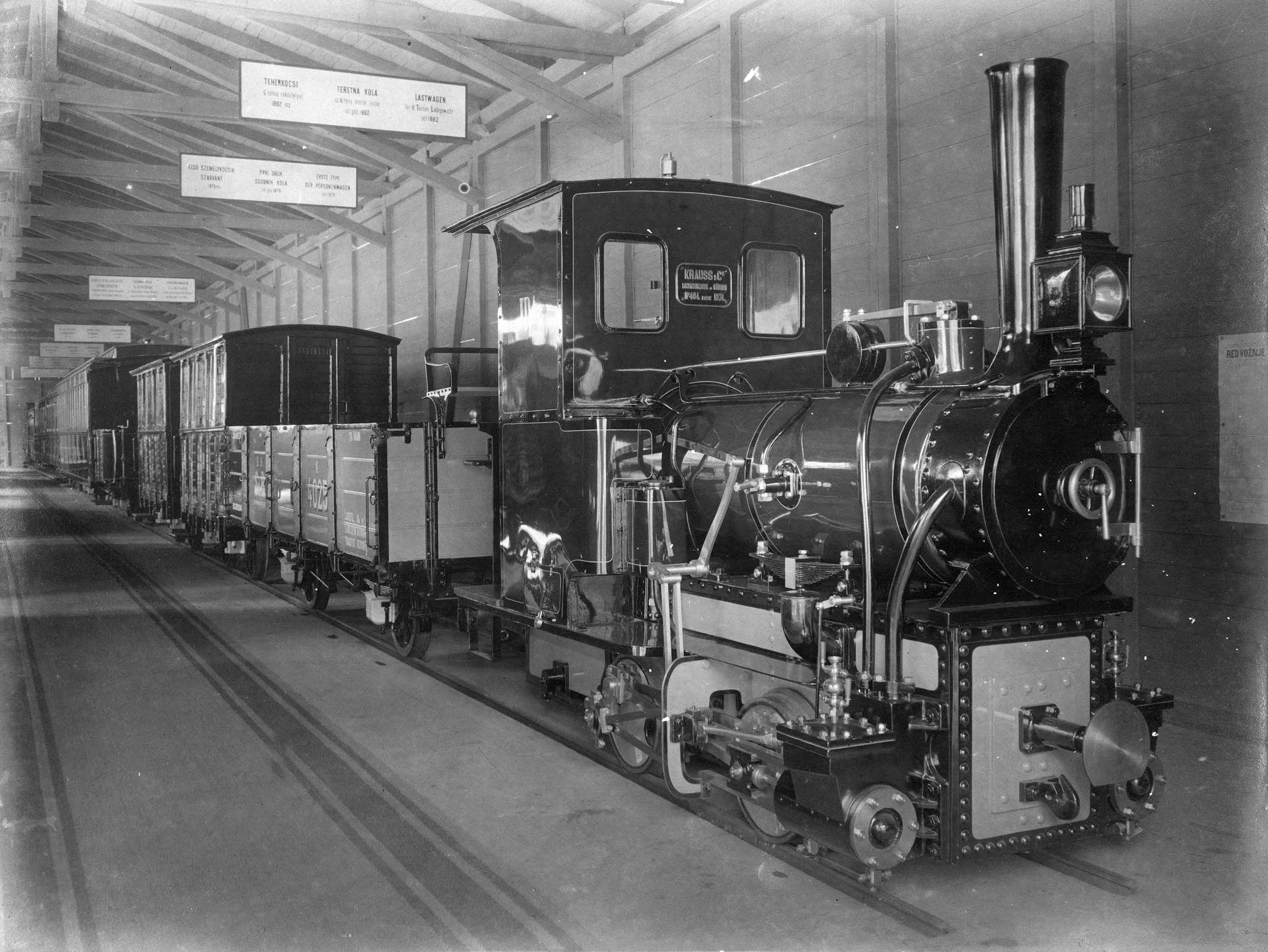 Hungarian Millennium Exhibition: The Locomotive and coaches of the Old Bosnian State Railway (kkBB). The lokomotive is kkBB nr. 7 IDA, manufactured by Krauss & Cie München in 1874 with no. 404